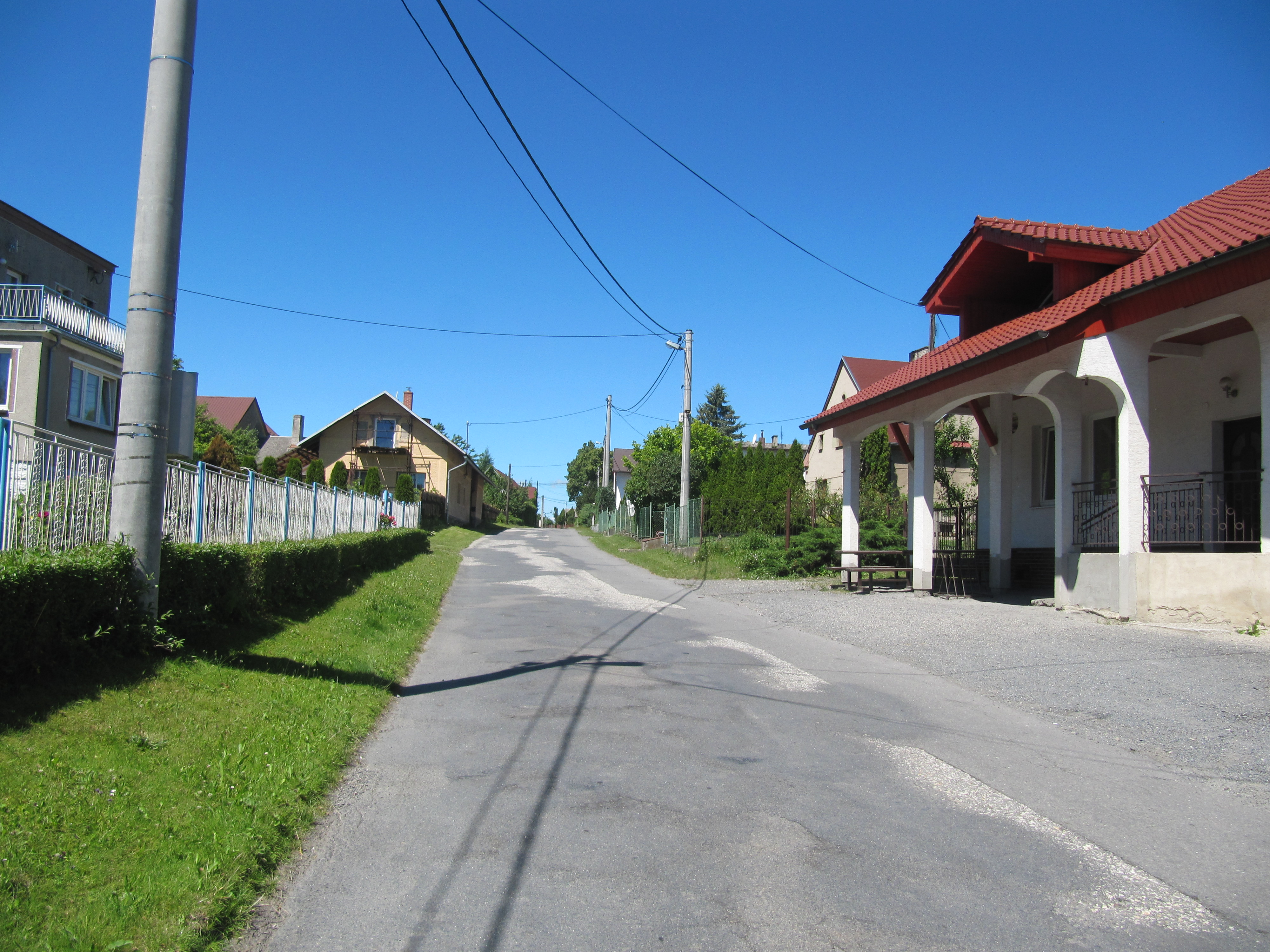 Skřipov, Opava District, Czech Republic, part Hrabství.